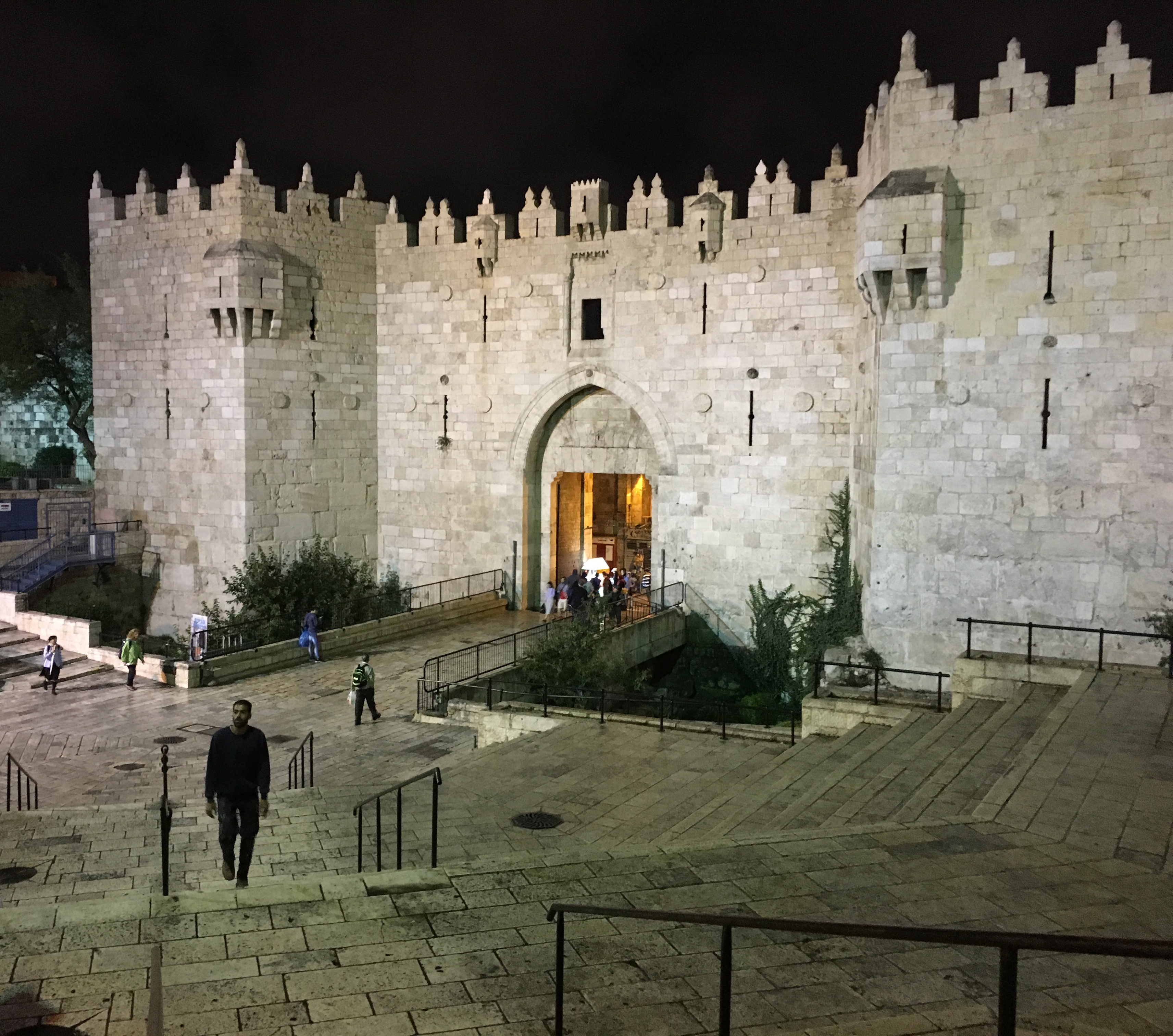 Damascus Gate by night